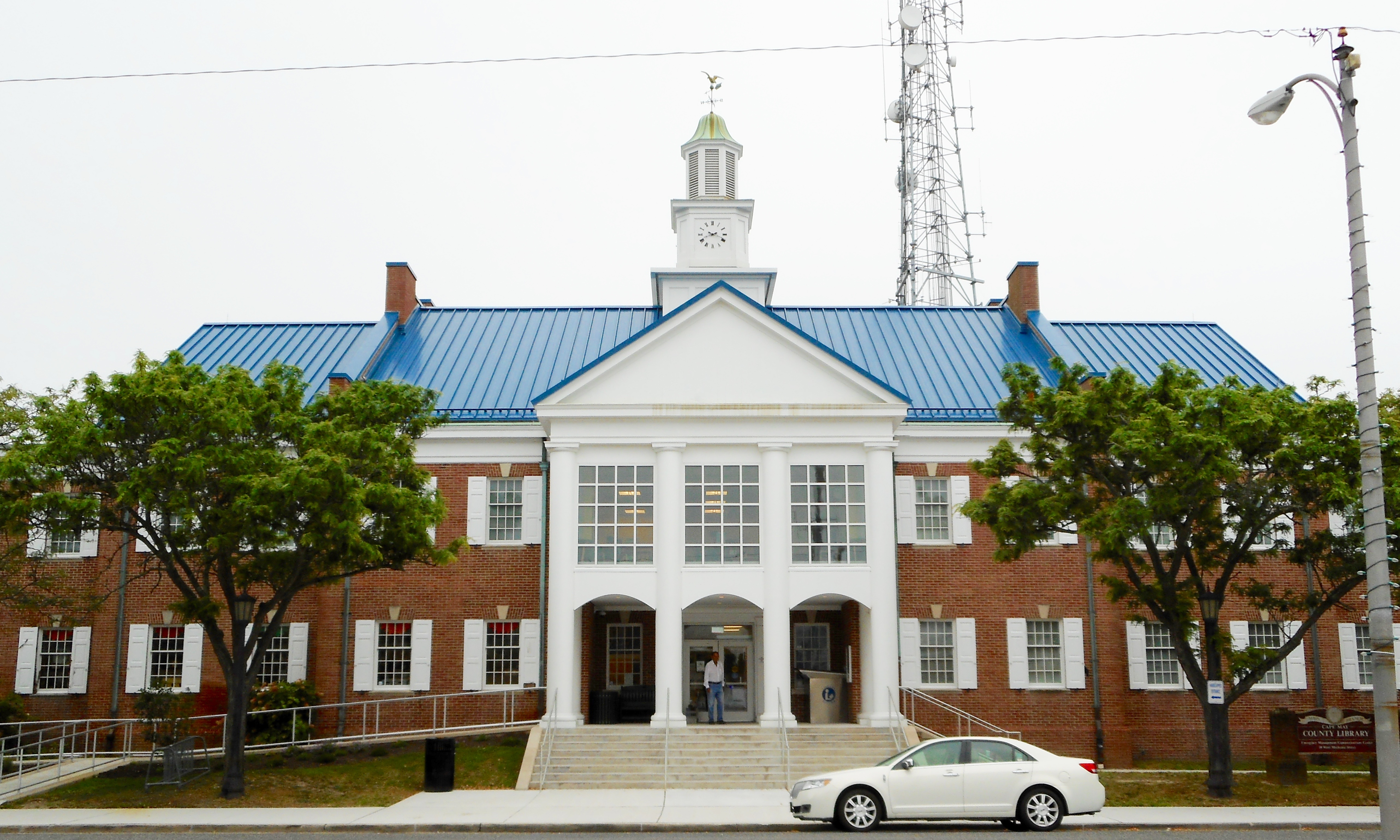 Cape May County Library Main Branch in Cape May Court House, Middle Township, New Jersey